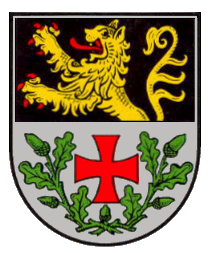 Coat of arms of Ransweiler